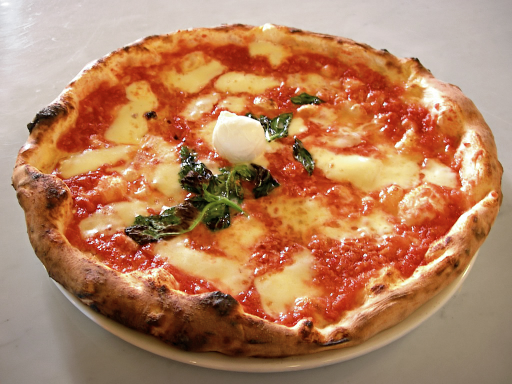 Picture of an authentic Neapolitan Pizza Margherita taken by Valerio Capello on September 6th 2005 in a pizzeria ("I Decumani") located on the Via dei Tribunali in Naples.